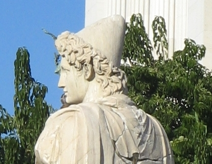 Colossal statue of a Dioscure, piazza del Campidoglio in Rome. Late Roman artwork, 4th century CE.